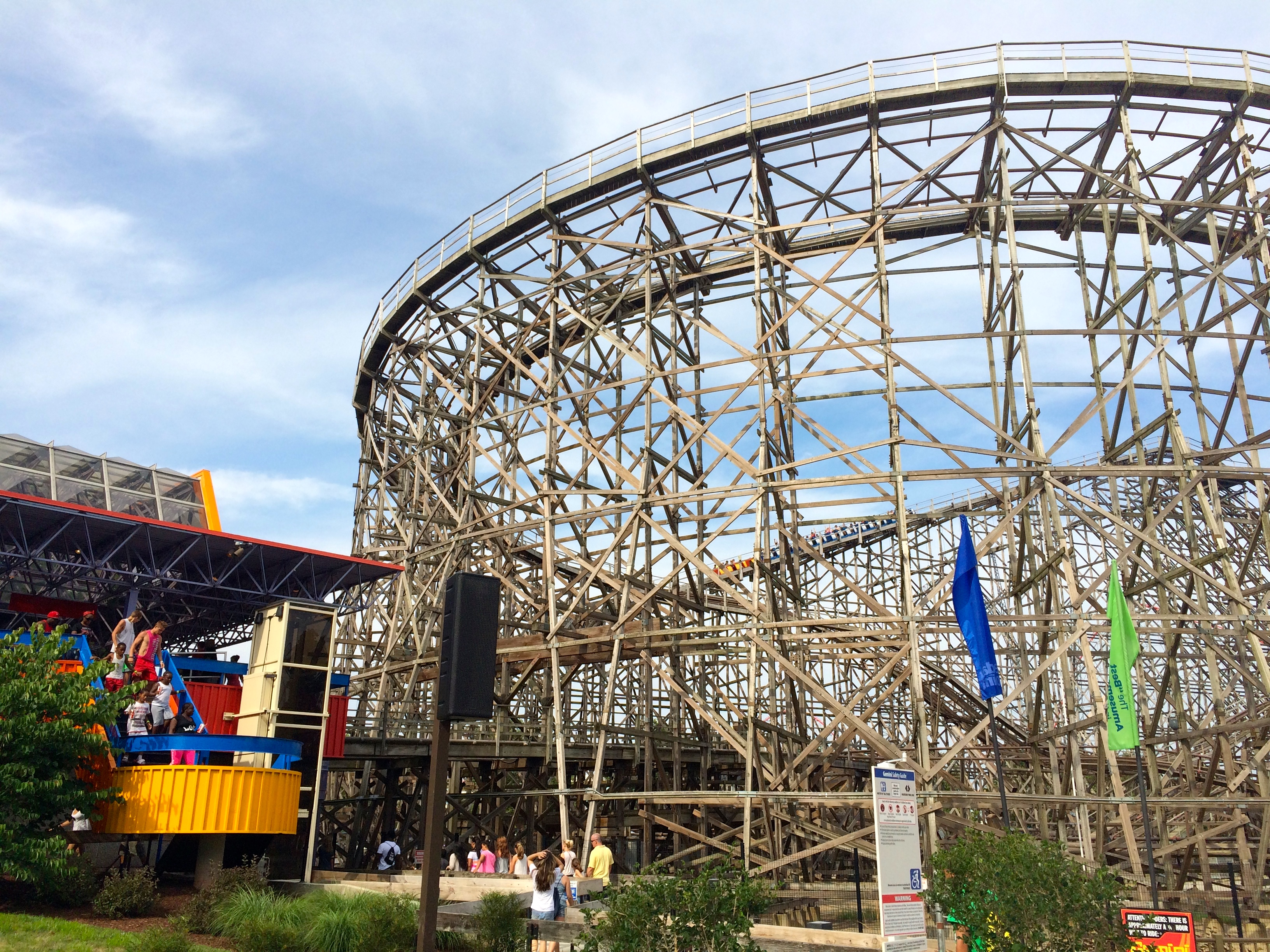 View from Gemini Midway of Gemini track by its station in Cedar Point.